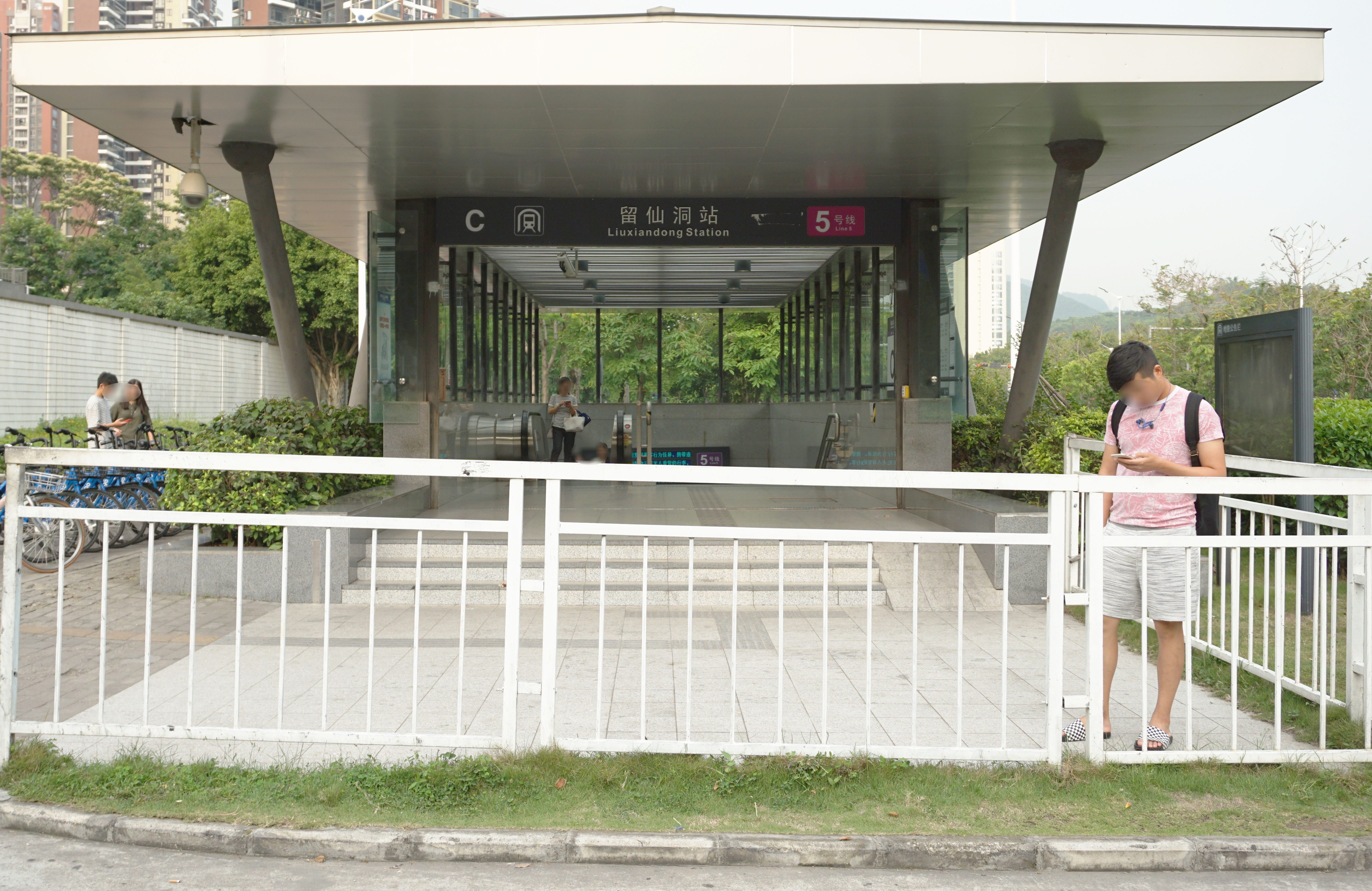 Liuxiandong Station in Nanshan District, Shenzhen.